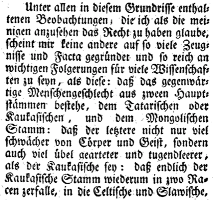 Christoph Meiners' 1785 treatise The Outline of History of Mankind was among the first works to use the term Caucasian (Kaukasisch). In plain text: Unter allen in diesem Grundrisse enthaltenen Beobachtungen, die ich als die meinigen anzusehen das Recht zu haben glaube, scheint mir keine andere auf so viele Zeugnisse und Facta gegründet und so reich an wichtigen Folgerungen für viele Wissenschaften zu seyn, als diese: daß das gegenwärtige Menschenqeschlecht aus zween Hauptstämmen bestehe, dem Tatarischen oder Kaukasischen, und dem Mongolischen Stamm: daß der letztere nicht nur viel schwächer von Cörper und Geist, sondern auch viel übel gearteter und tugendleerer, als der kaukasische sey: daß endlich der Kaukasische Stamm wiederum in zwo Racen zerfalle, in die Celtische und Slawische. Translation: Of all the foundations and observations I have made, no other seems to be based on so many testimonies and facts, and none so rich in scientific deductions as this: the present human race exists of two main branches (Stamm), the Tartar or Caucasian and the Mongolian. The latter is not only much weaker in body and spirit, but much worse in its ways and devoid of virtue compared to the Caucasian. The Caucasian branch divided into two races, the Celtic and the Slavic.